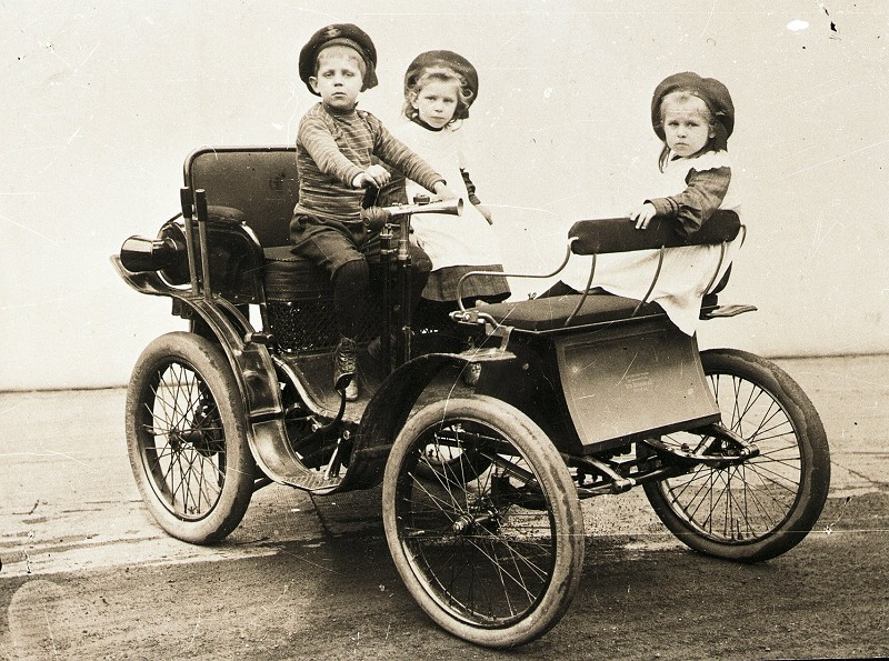 Otto (jun.), Erna und Ilse Beckmann (1903)